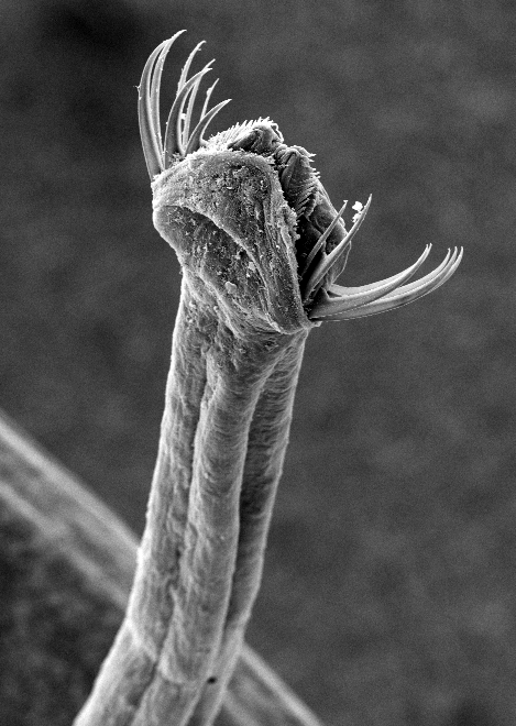 MEB shot of the chaetognath Sagitta